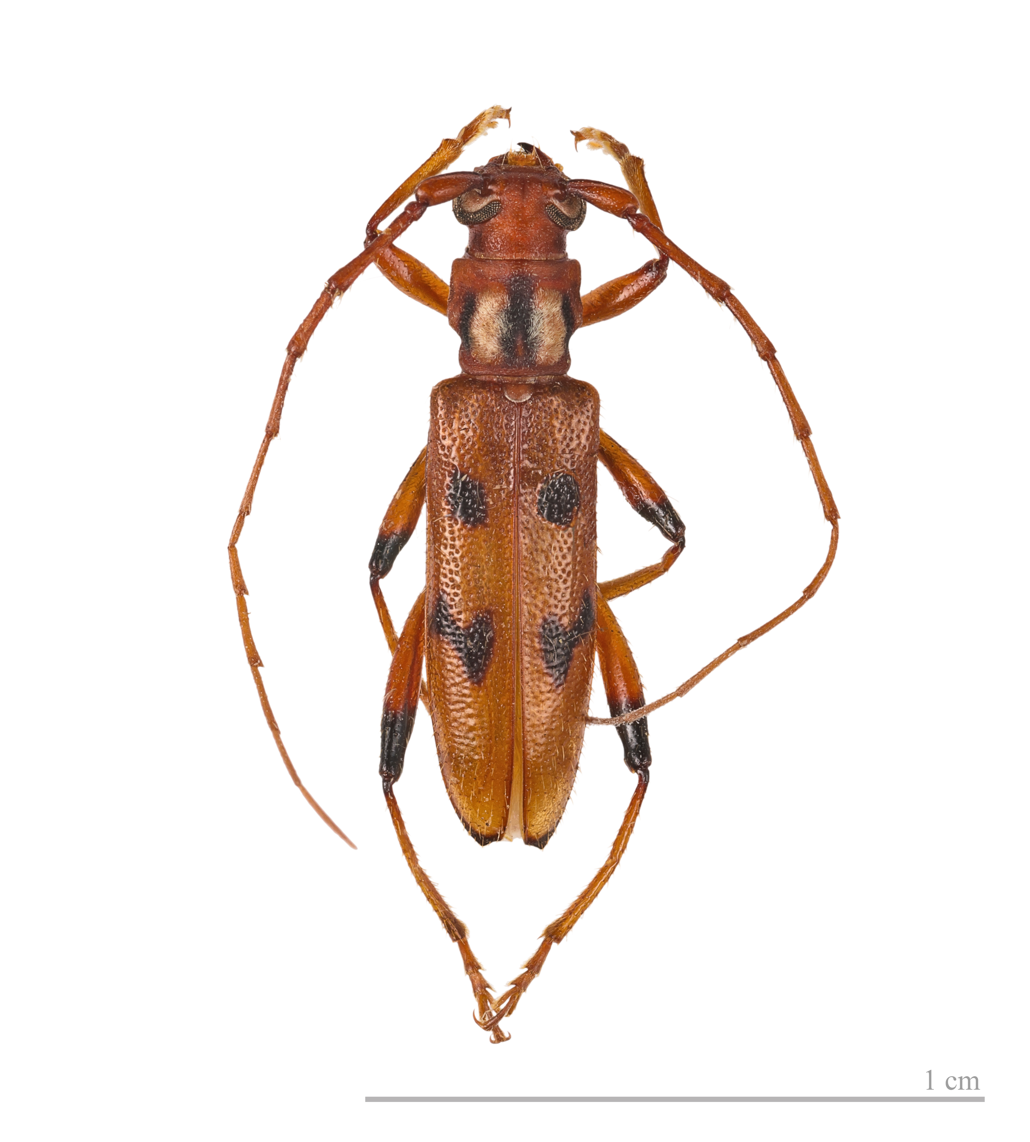 ♀ - Dorsal side Locality : Kourou, Mont des singes, French Guiana.